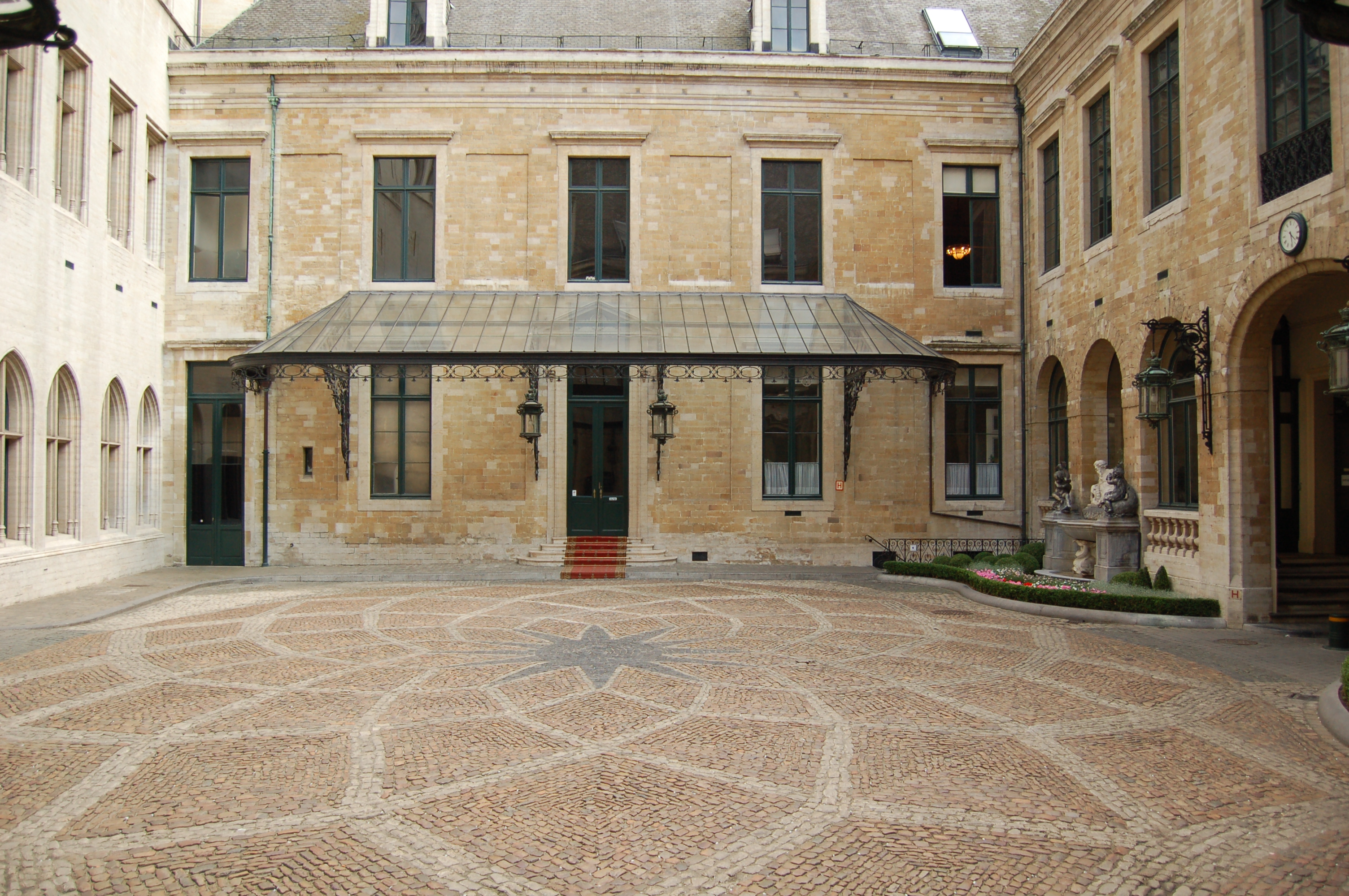 Brussels Townhall Court